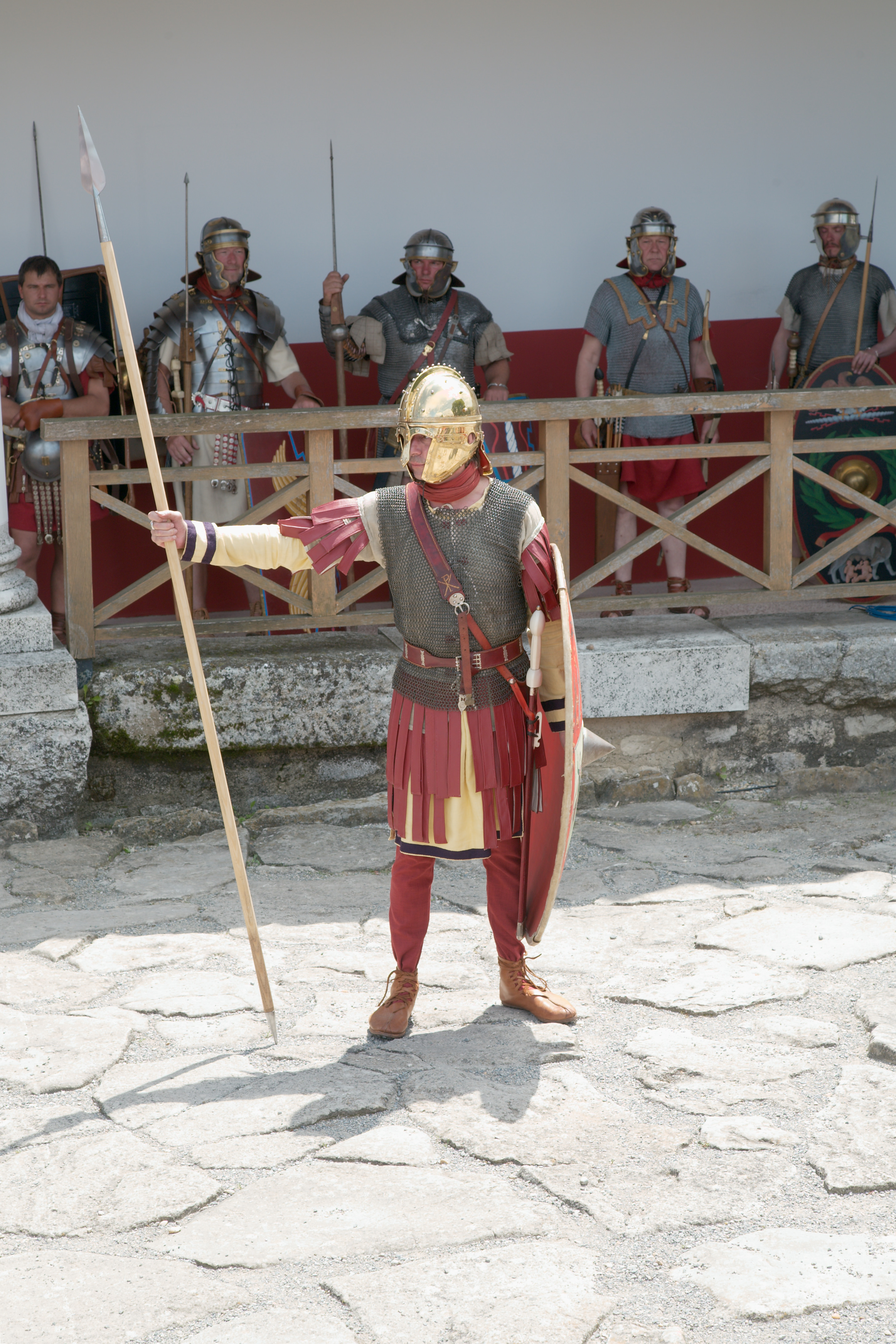 Roman legionaire 4. century. Have a look at the christian initial on the shoulder strap. Reenactment of [1]